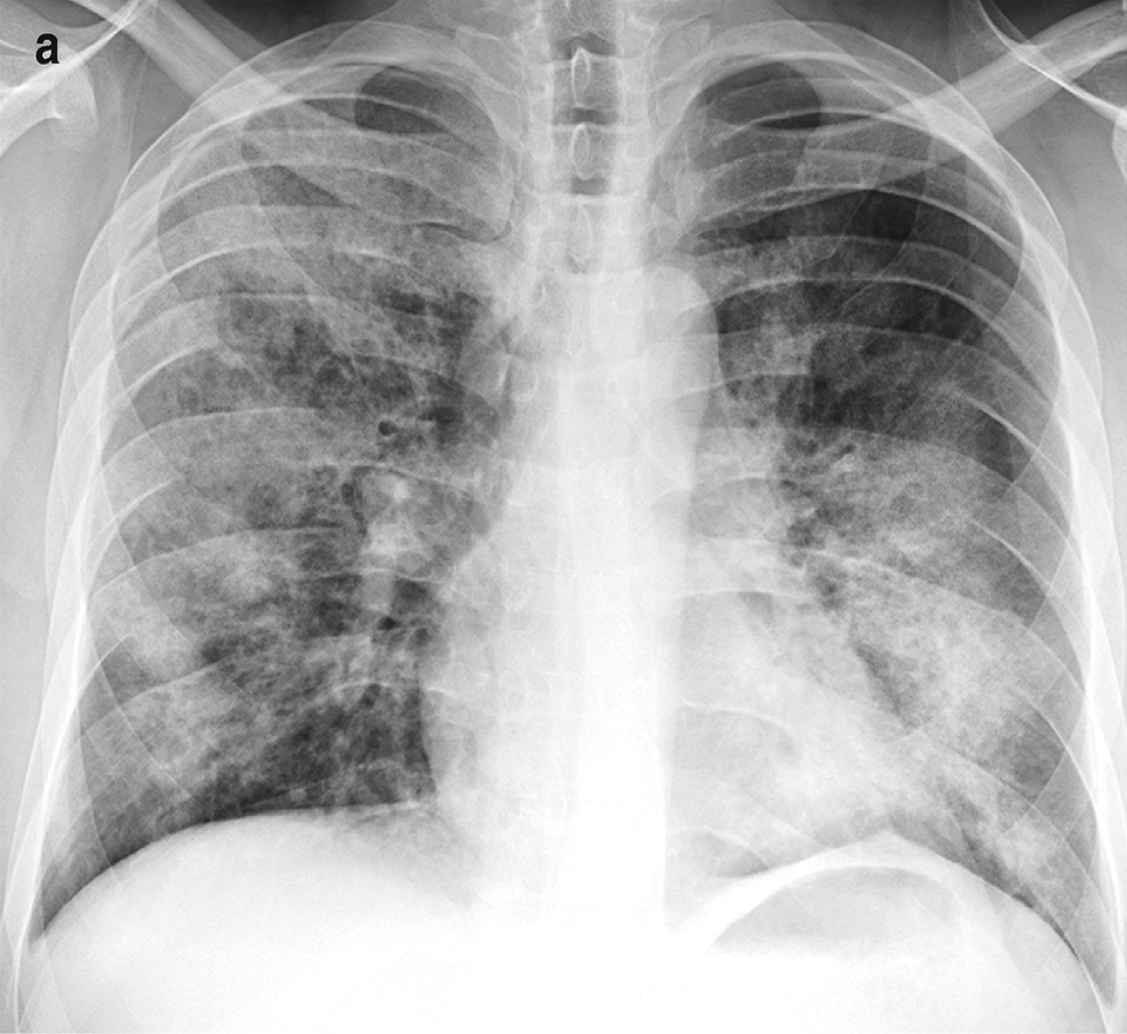 X-ray of bronchopneumonia, by Pseudomonas aeruginosa: Posteroanterior chest radiograph demonstrates multifocal lung consolidation bilaterally consistent with bronchopneumonia.